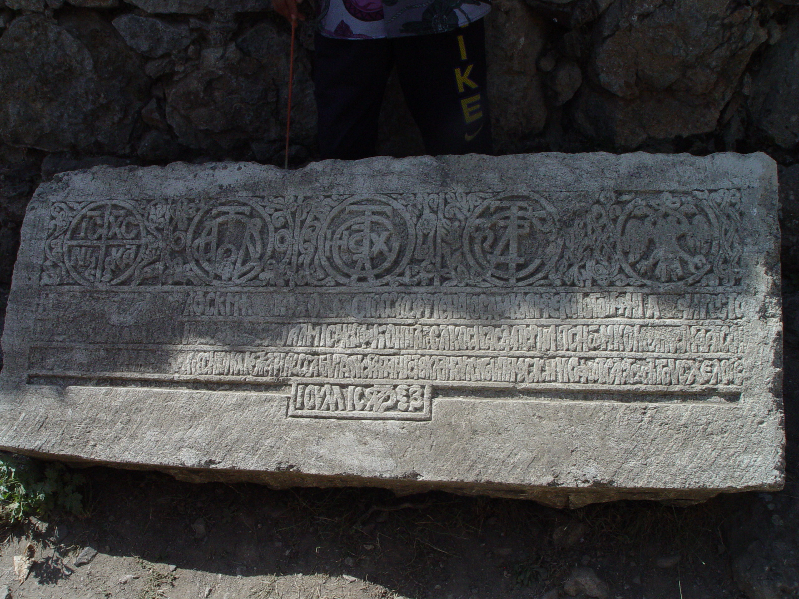 Stone with simbols of Theodoro principality in Funa fortress, Crimea